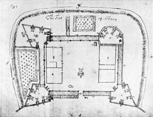 A diagram of Fort Frederick in Albany, New York drawn in 1695